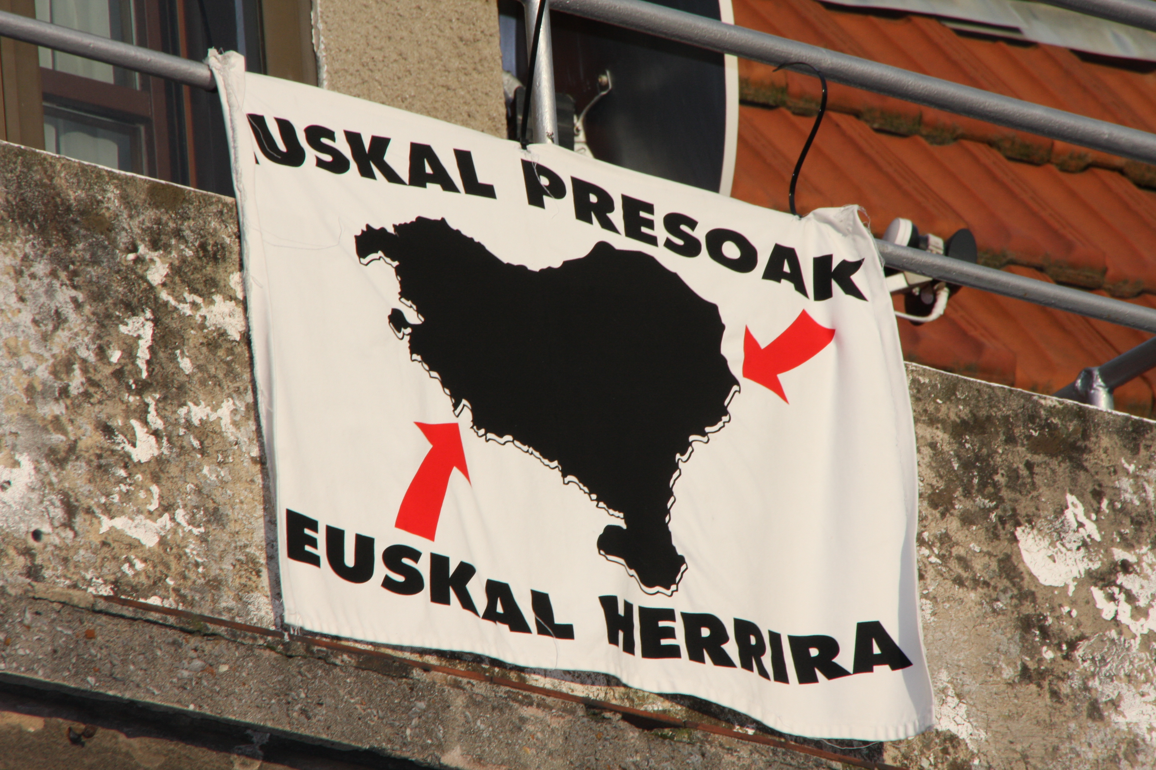 Basque prisoners to Basque Country